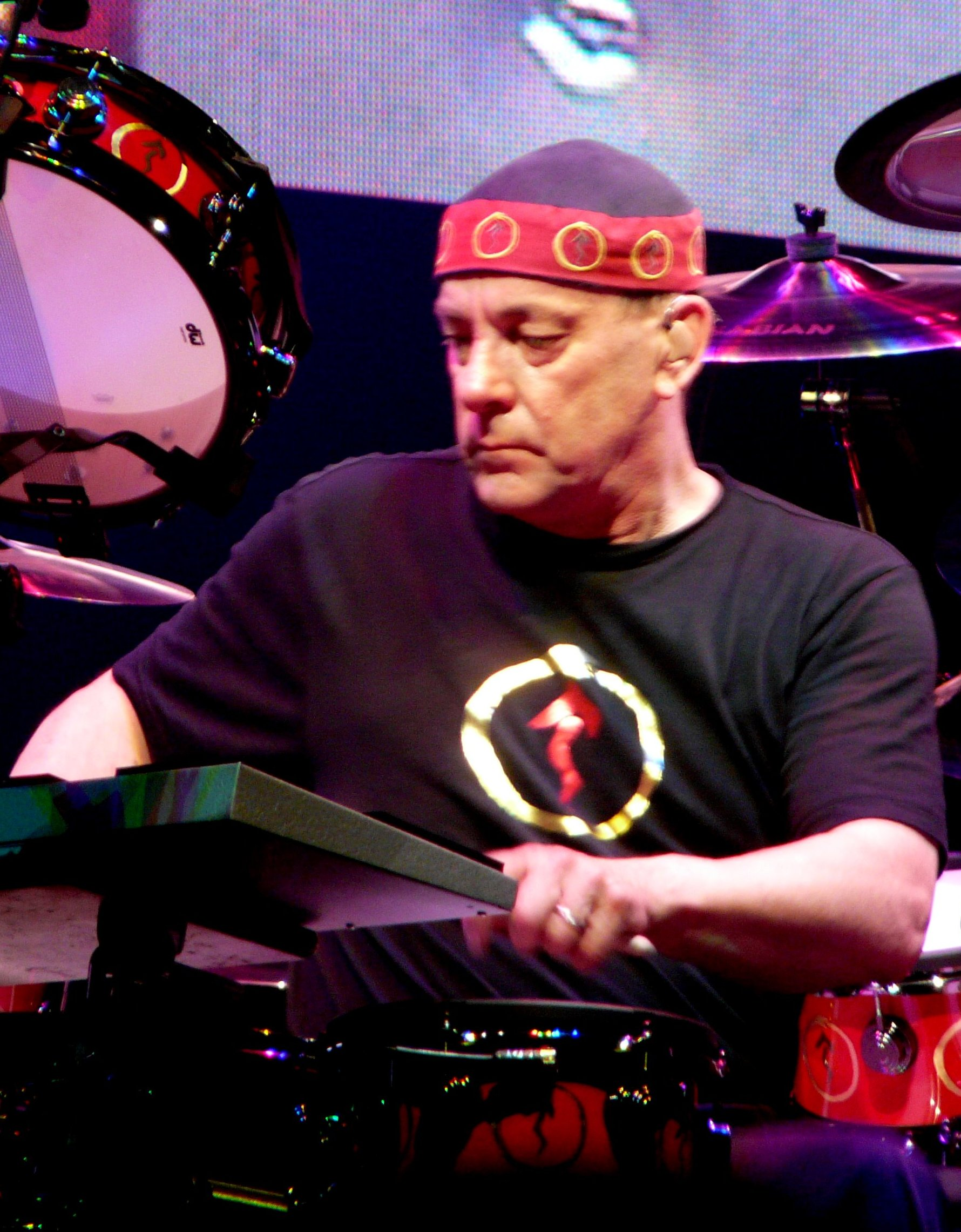 Neil Peart of Rush live in concert at the Xcel Energy Center on May 22, 2008. PHOTO BY MATT BECKER